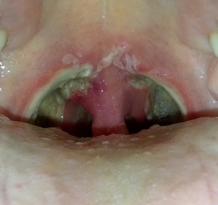 User appx 36 hours after tonsils removed.